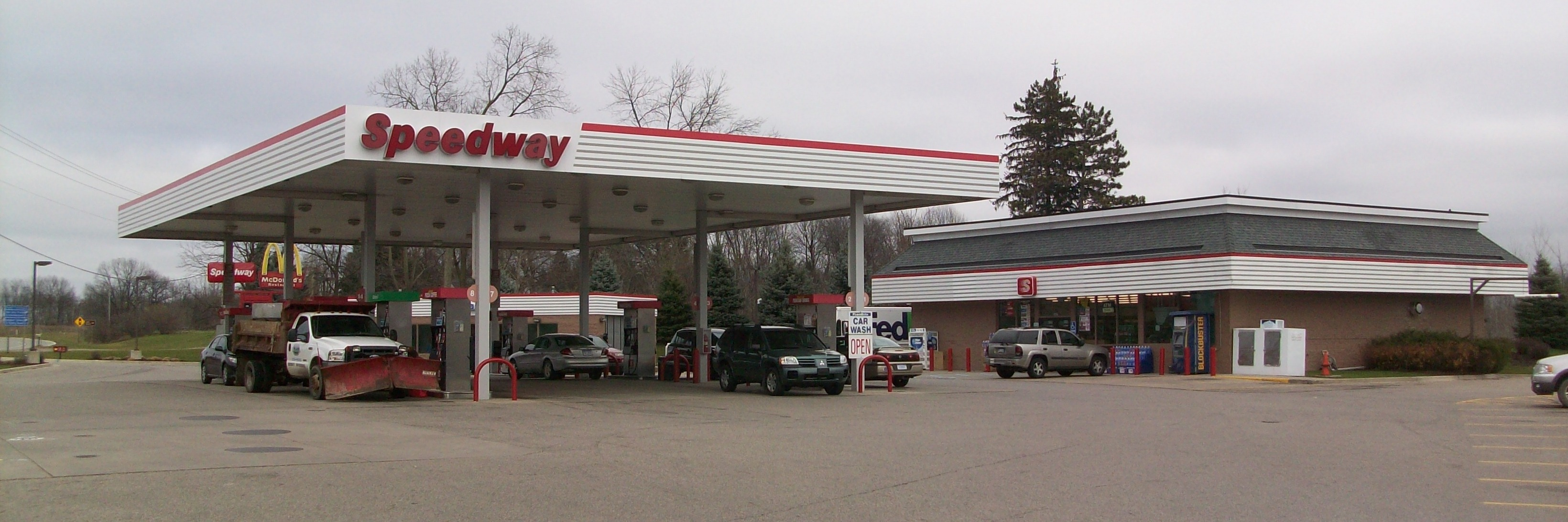 This is one of Speedway's larger locations, located just north of Haslett, Michigan.